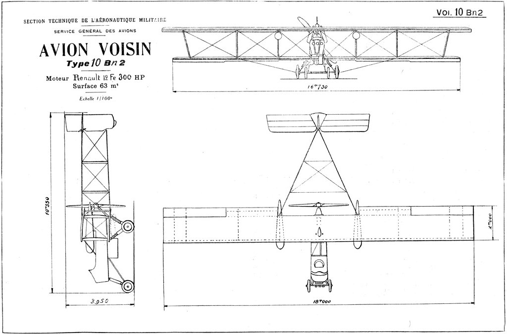 Voisin 10 Bn.2 French two seat night bomber